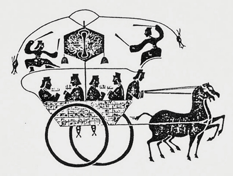 Stone rubbing of an ancient Chinese Han Dynasty odometer horse cart (汉代记里鼓车); the original relief came from the Xiao Tang Shan Tomb, c. 125 AD. Four musicians are seen seated in the cart and playing pan-pipes.